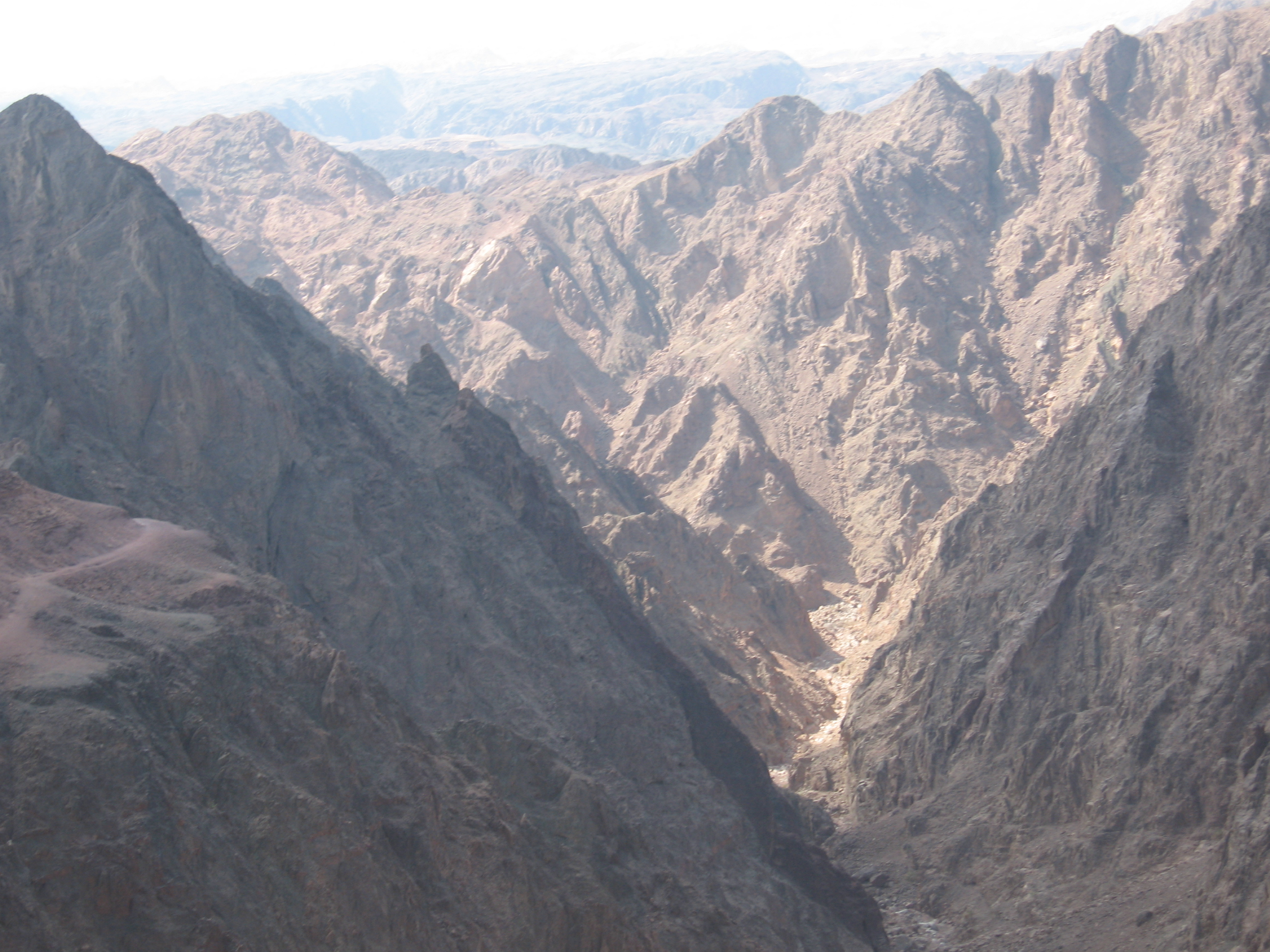 The Gishron stream, a stream in the Eilat mountains in southern Israel.